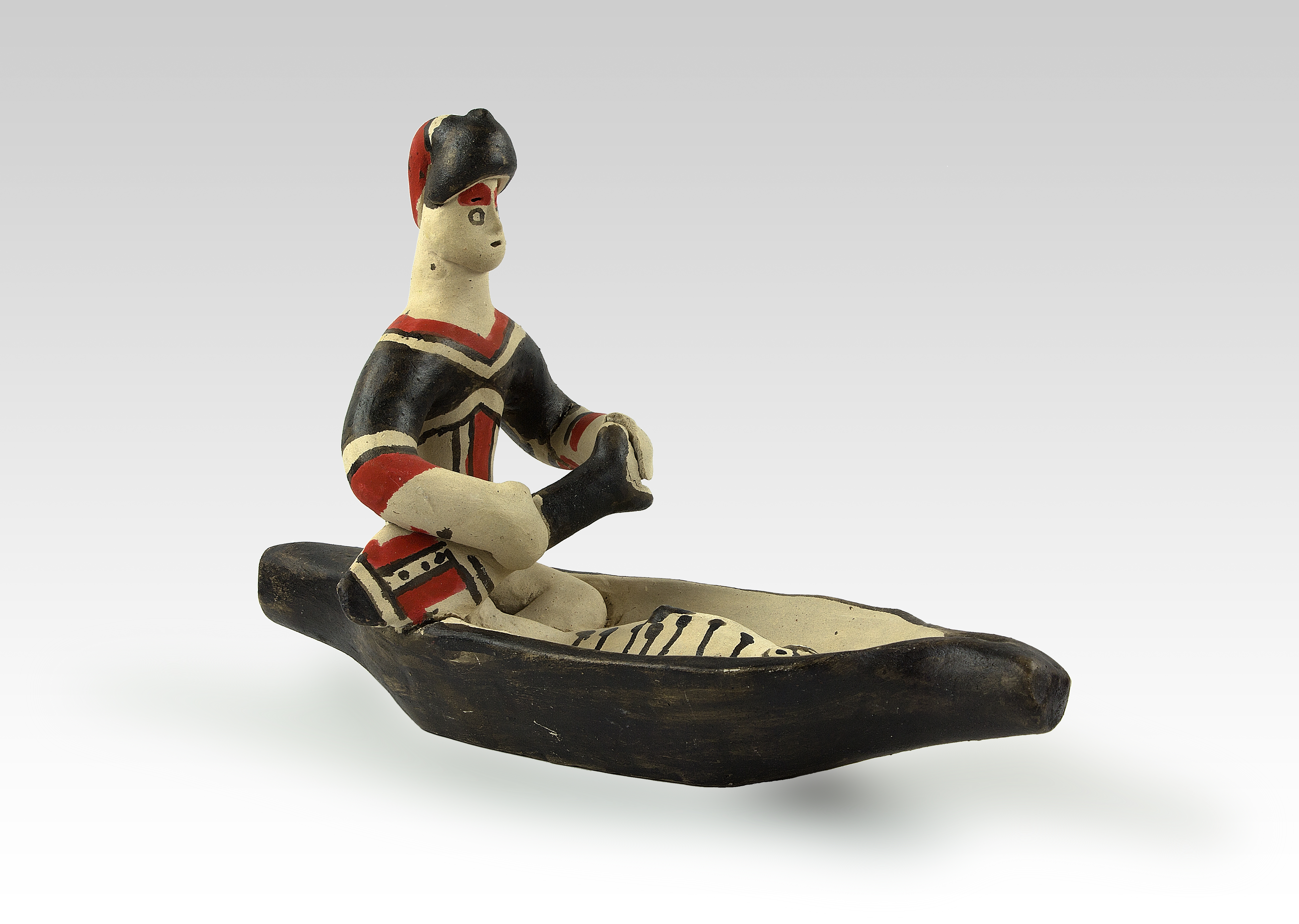 man in boat with fish size : 12,8 x 8,0 x 18,5 cm material : clay technique : ceramic